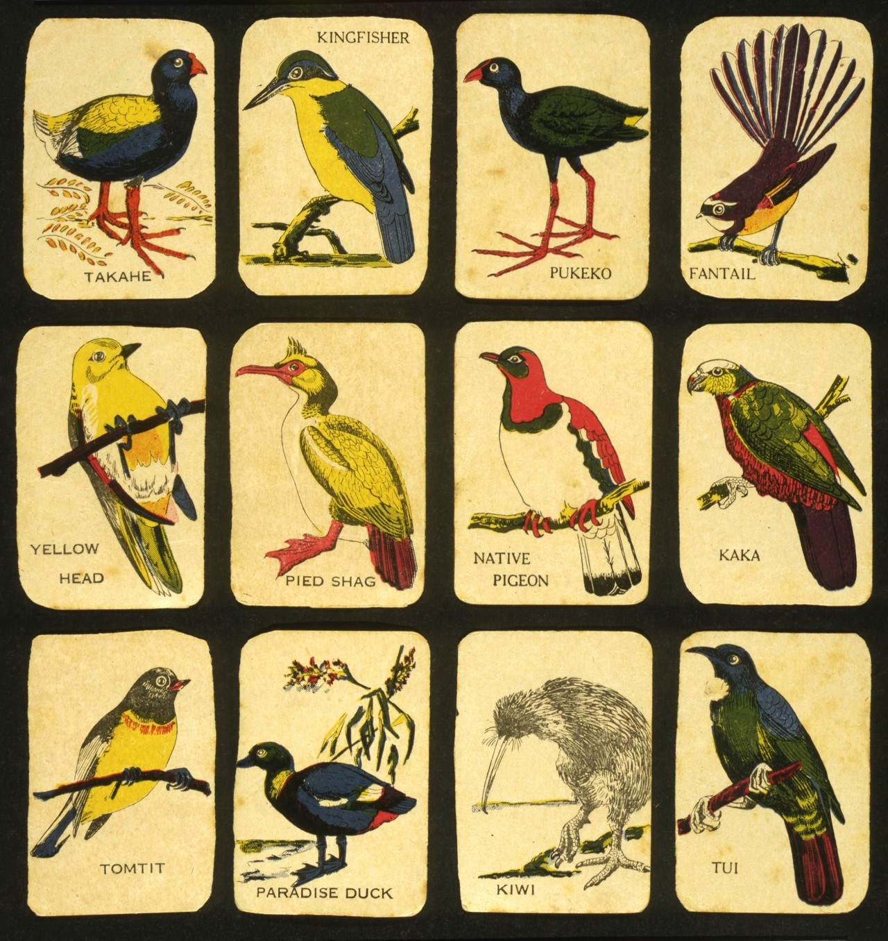 Deck of playing cards featuring New Zealand native birds. This attractive set of “Snap” or “Happy families” playing cards originally had four each of twelve featured birds, most of which are native to New Zealand. The birds featured are: Native pigeon, kingfisher, kaka, pied shag, kiwi, fantail, pukeko, tui, tomtit, paradise duck, takahe, and yellow head.